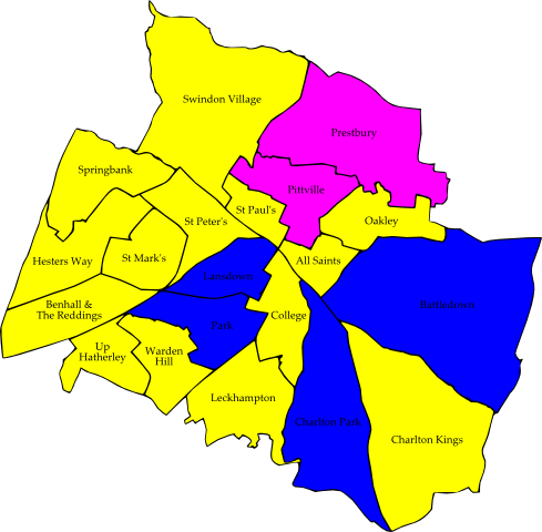 A map of the results of the 2010 Cheltenham Council election. Colour legend by wards won: Liberal Democrats Conservative party People Against Bureaucracy